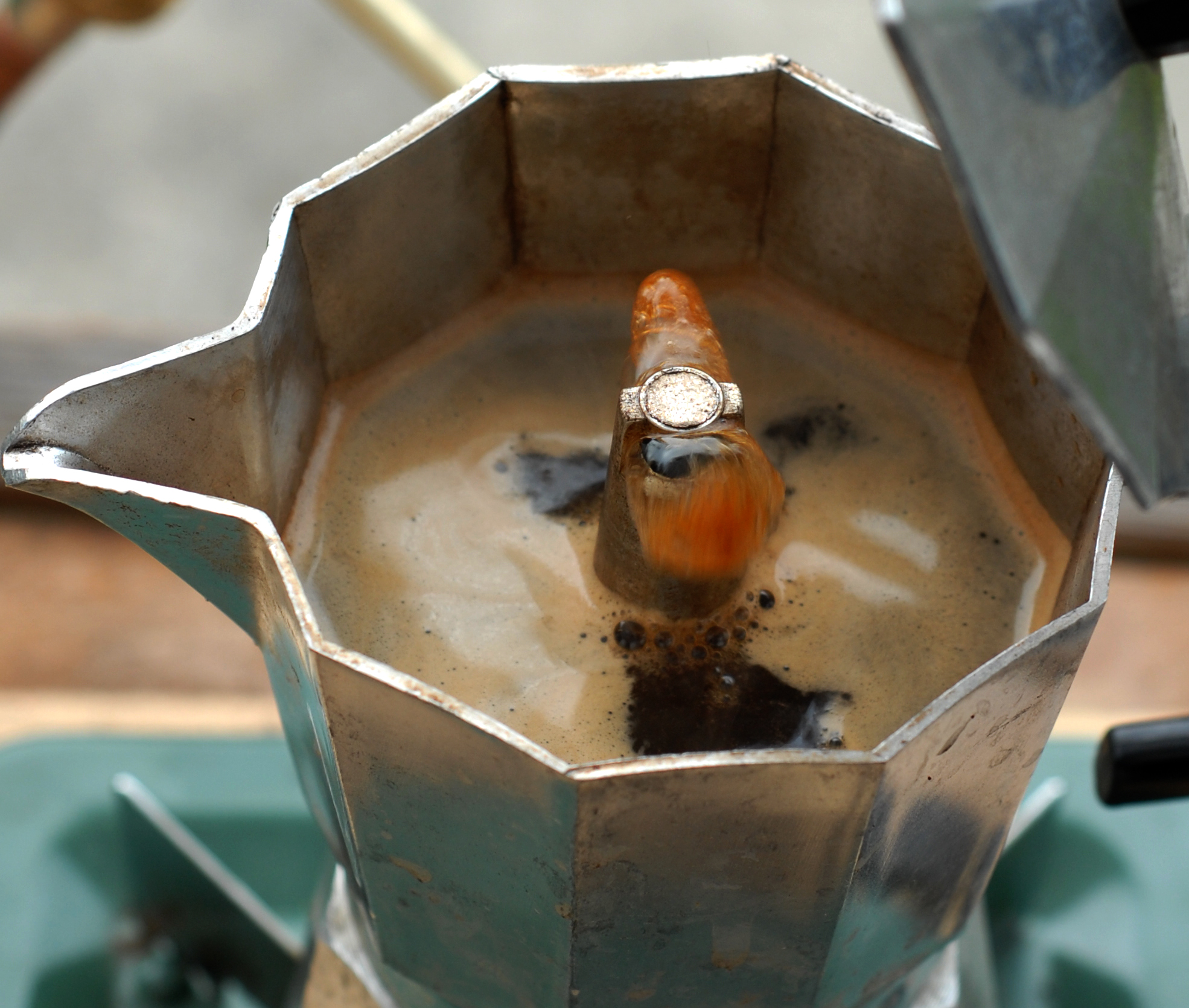 James Simon, Moka Coffe Maker picture with crema